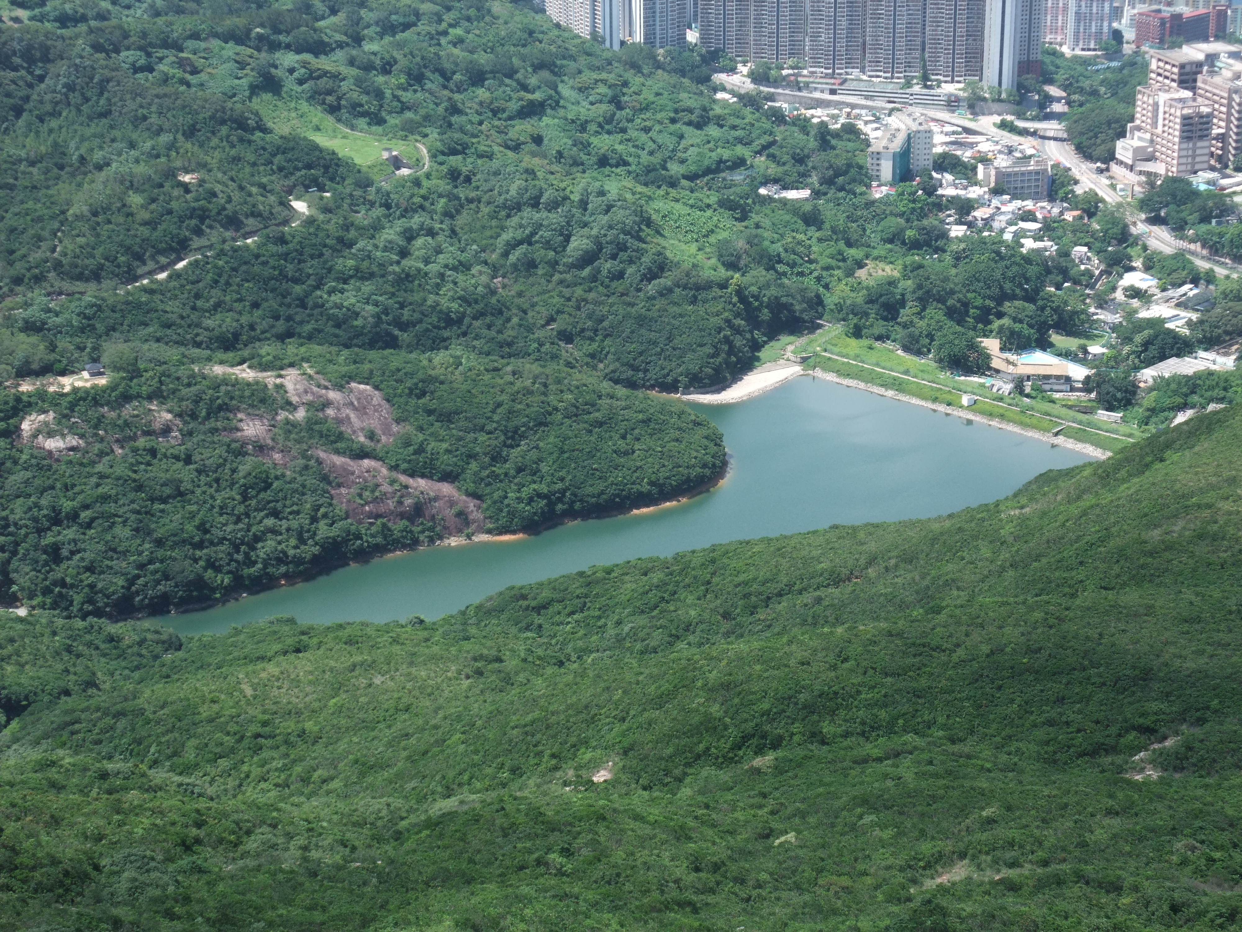 Photo of Pok Fu Lam Reservoir